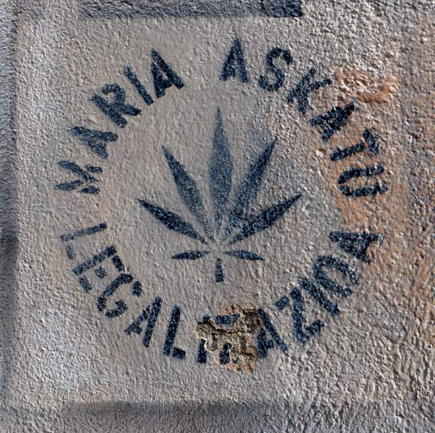 Graffiti en favor de la legalización del cannabis ("maría") en Vitoria-Gasteiz. Imagen tomada el 30-12-2010